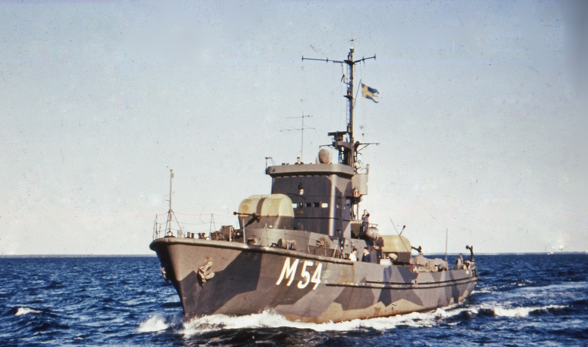 Swedish Navy minesweeper HMS Sturkö (M54) during the 1970s.